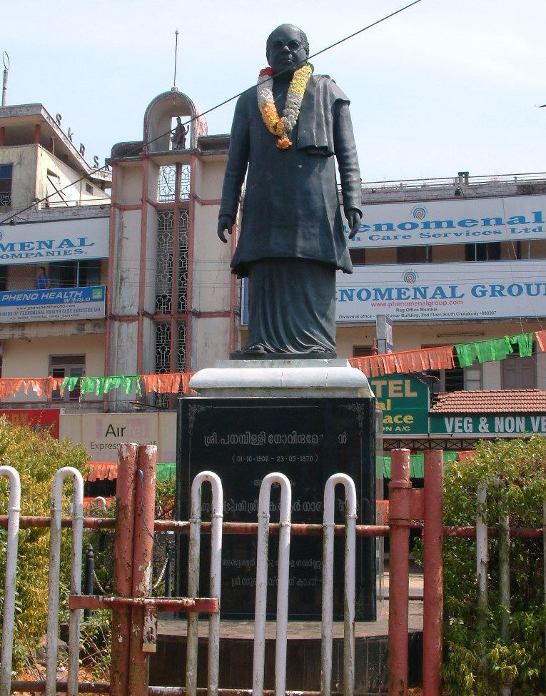 Statue of Panambilly Govinda Menon. The statue has been broken in a vehicle accident and not present now. National Highway Fly-over is being constructed at this spot.